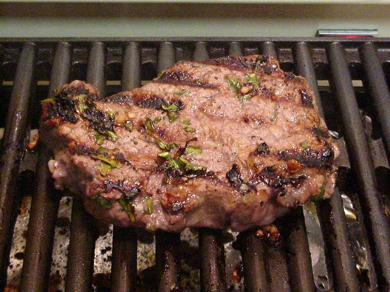 A photo of a marinated steak